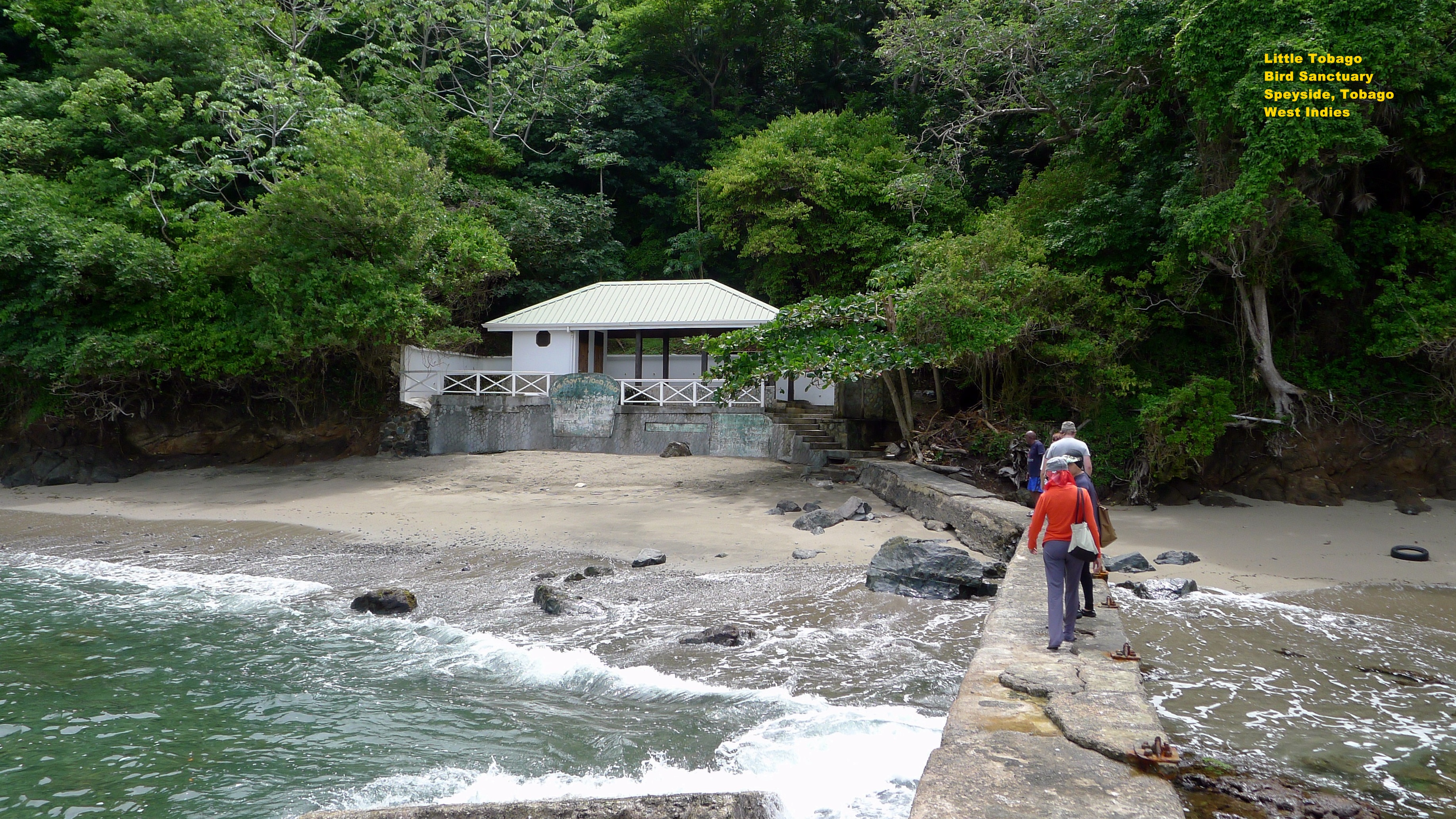 Little Tobago island - Located off the north east village of Speyside, Tobago, West Indies. It is a bird sanctuary.